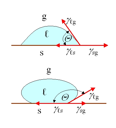 Two droplets on surface, one with low contact angle, the other with high contact angle. Author: Dr. Báder Imre